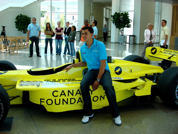 Champ Car driver Graham Rahal with his racecar in 2007.